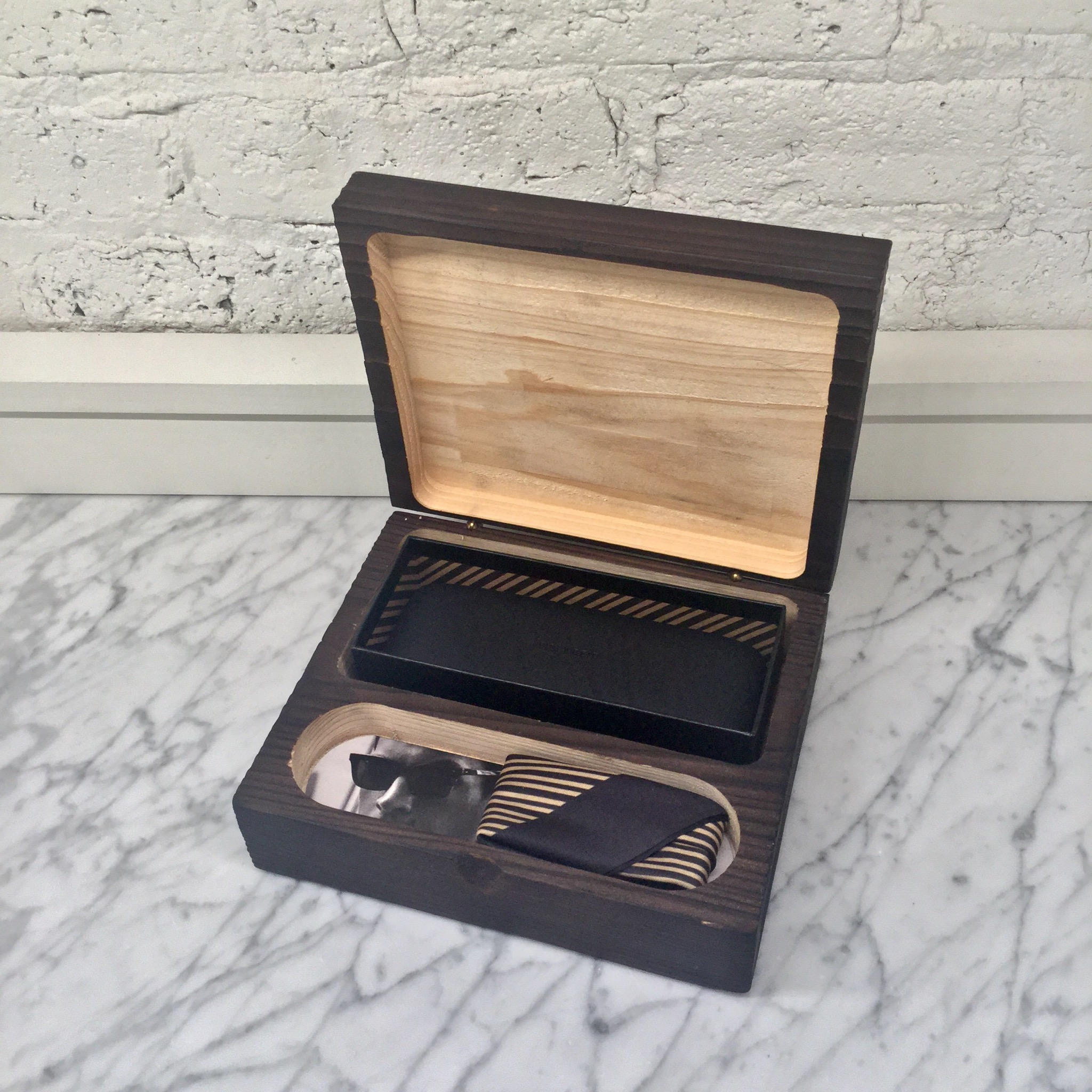 Yakisugi effect wooden box for sunglasses